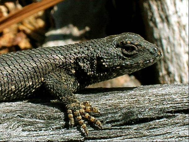 A juvenile eastern fenze lizard sunning itself on a log. Picture taken in NC, USA.